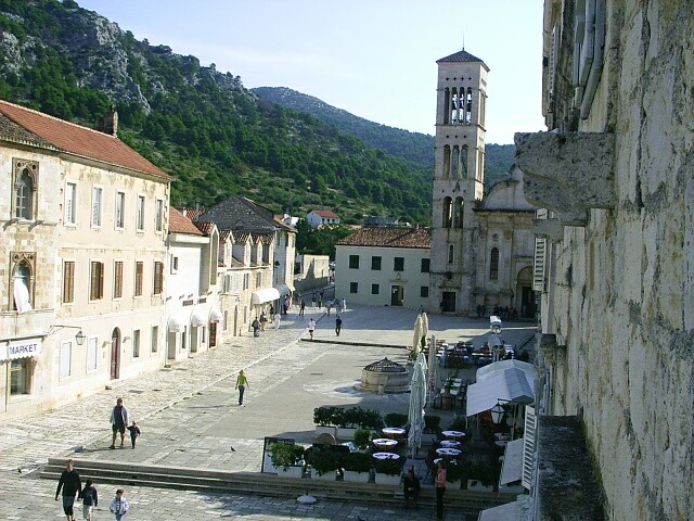 Town of Hvar on the island of the same name, Croatia